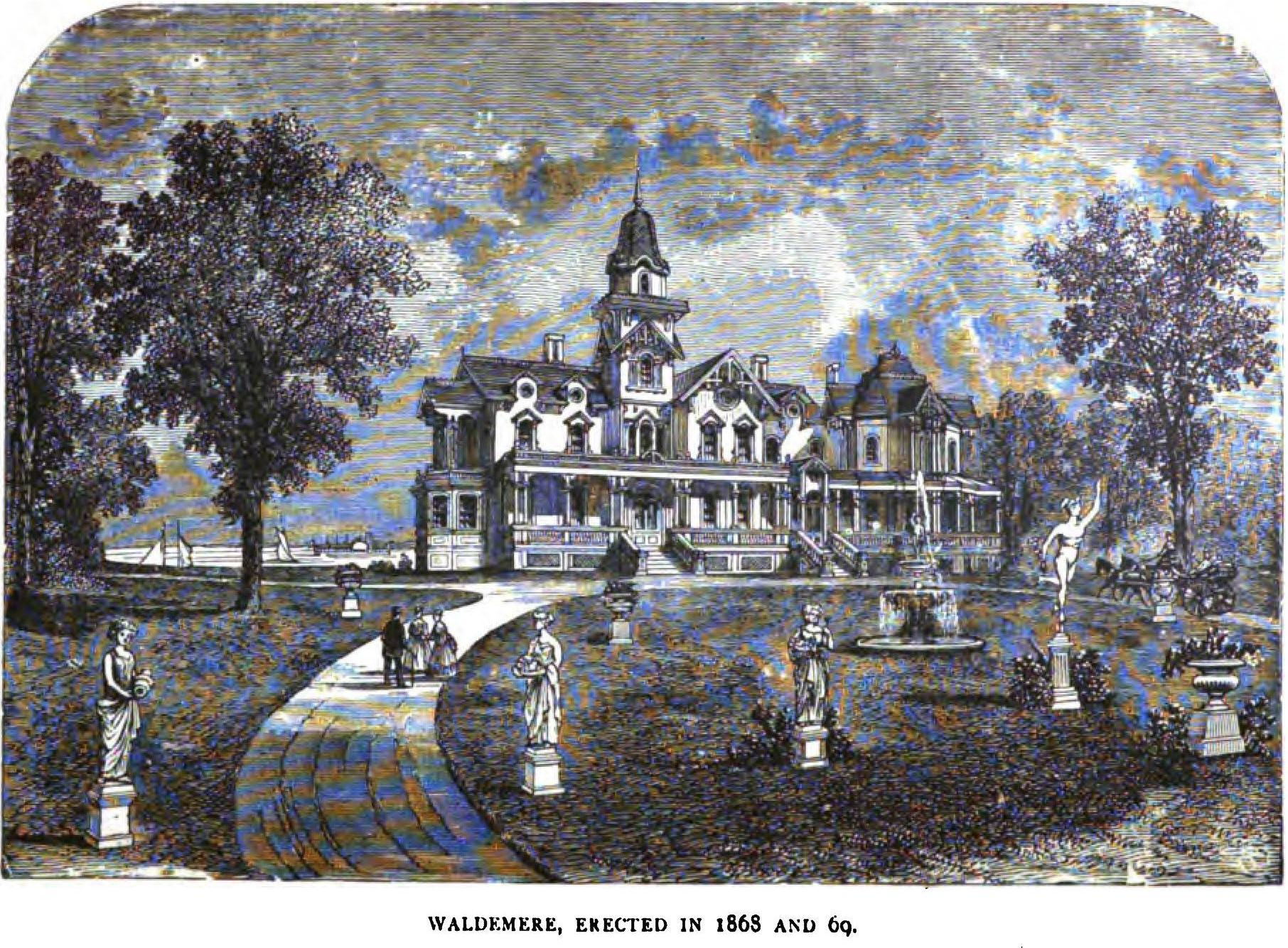 Book engraving of Waldemere, P.T. Barnum's residence in Bridgeport, Connecticut after 1869